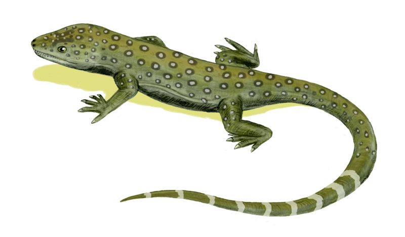 Milleretta , a Parareptilia from the Late Permian of South Africa, pencil drawing